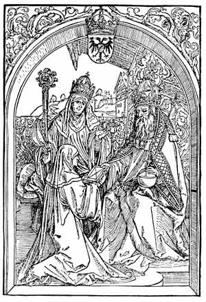 Woodcut from the Roswitha editio princeps 1501